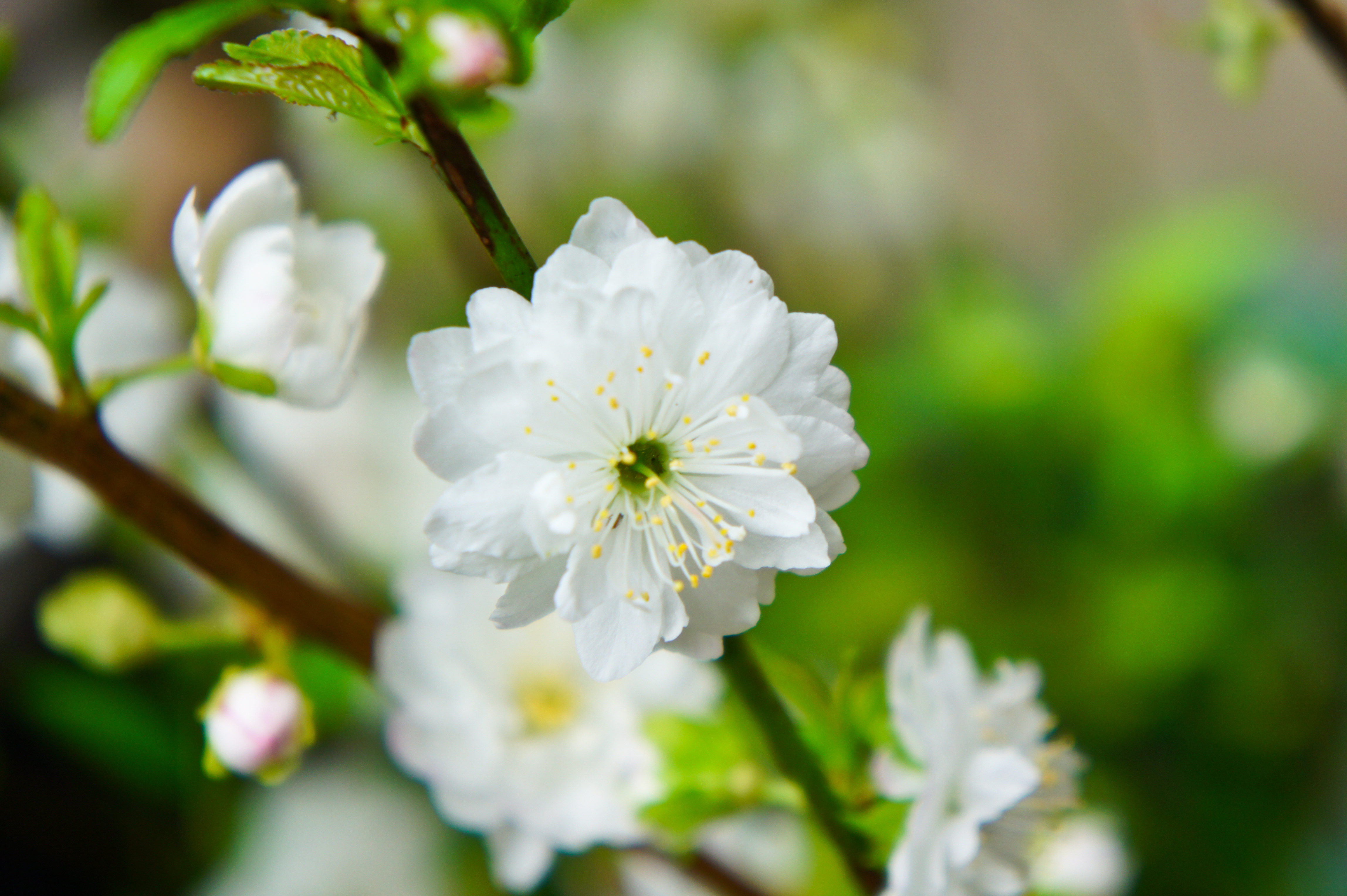 Prunus japonica flower